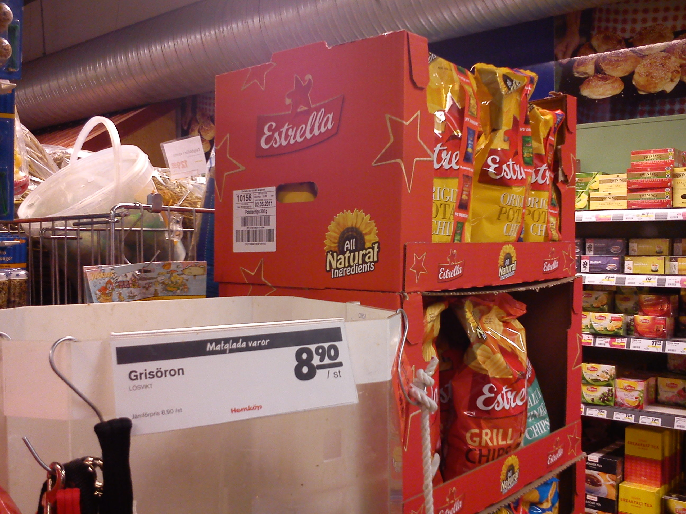 Potato chips in a Swedish supermarket in 2010.